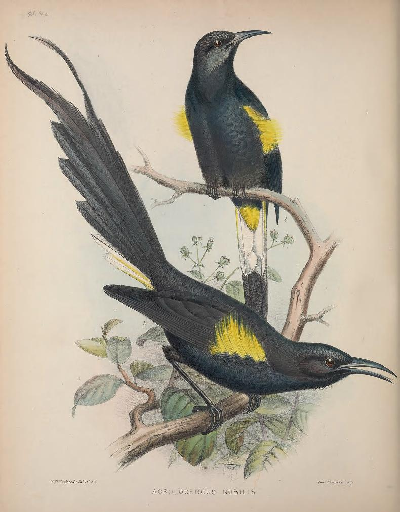 Moho nobilis from The Birds of the Sandwich Islands